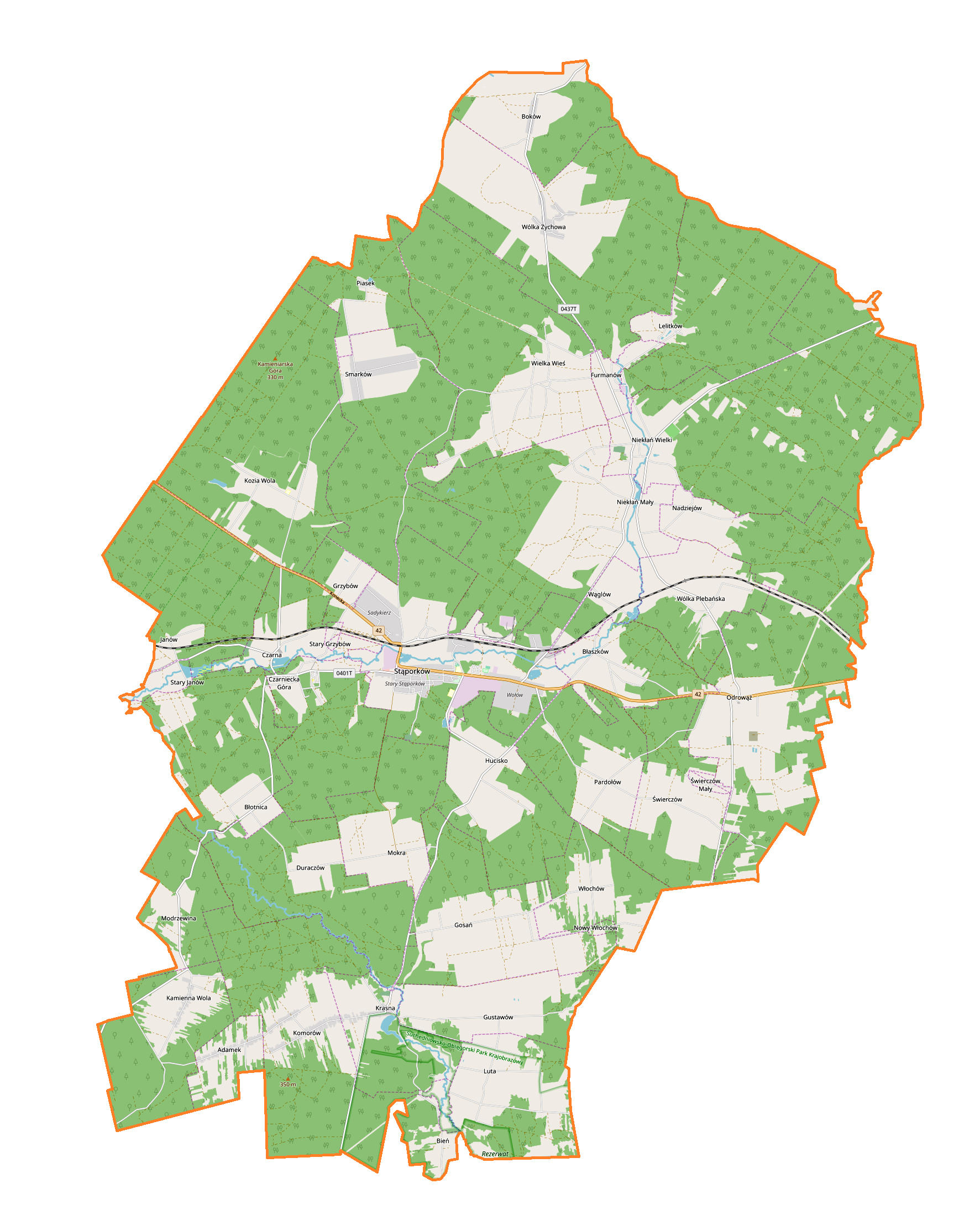 Location map